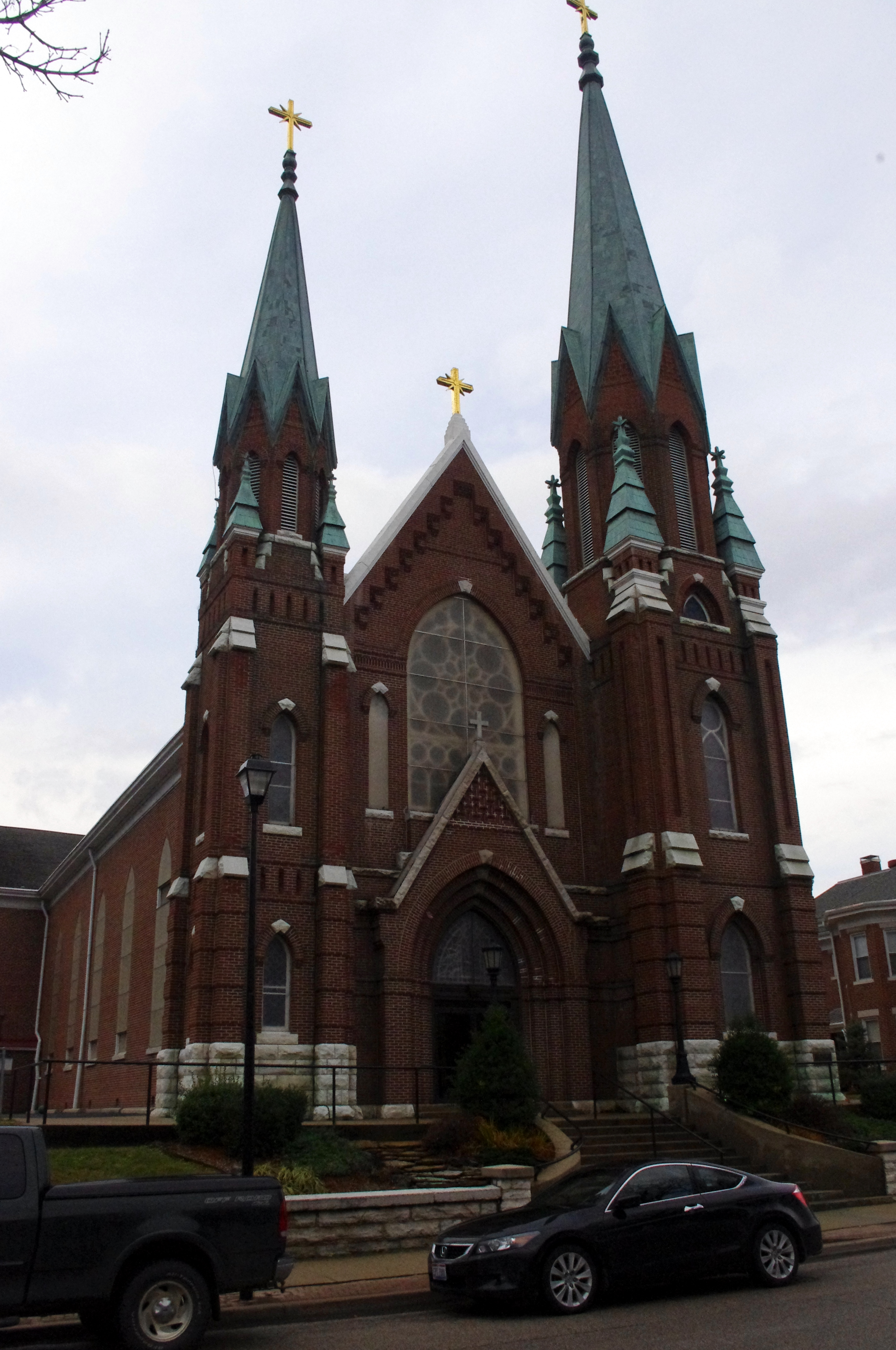 St. John the Baptist, Vincennes, IN - exterior front facade